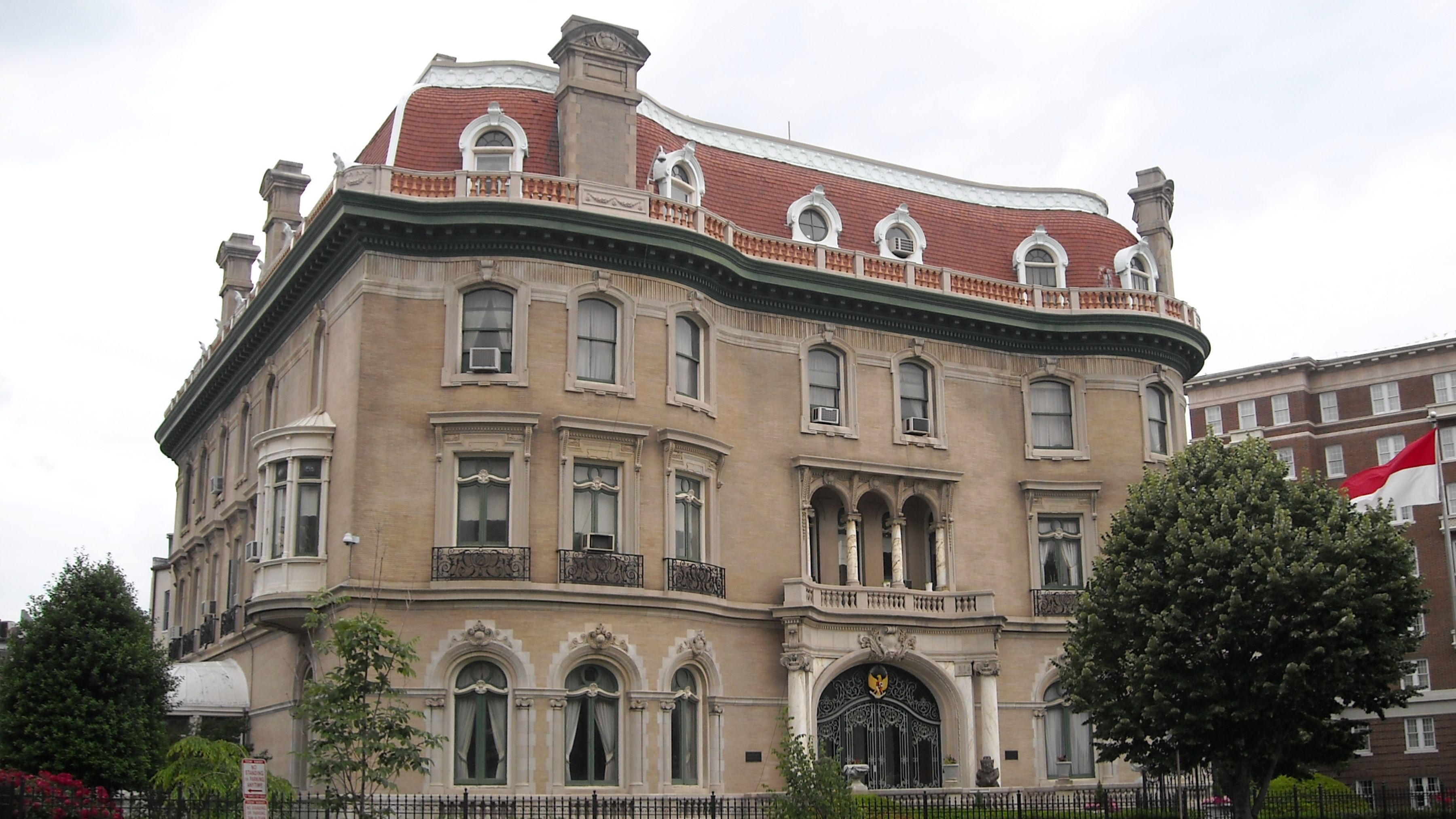 Embassy of Indonesia in Washington, D.C. The building is also known as the Walsh-McLean House and is listed on the National Register of Historic Places.